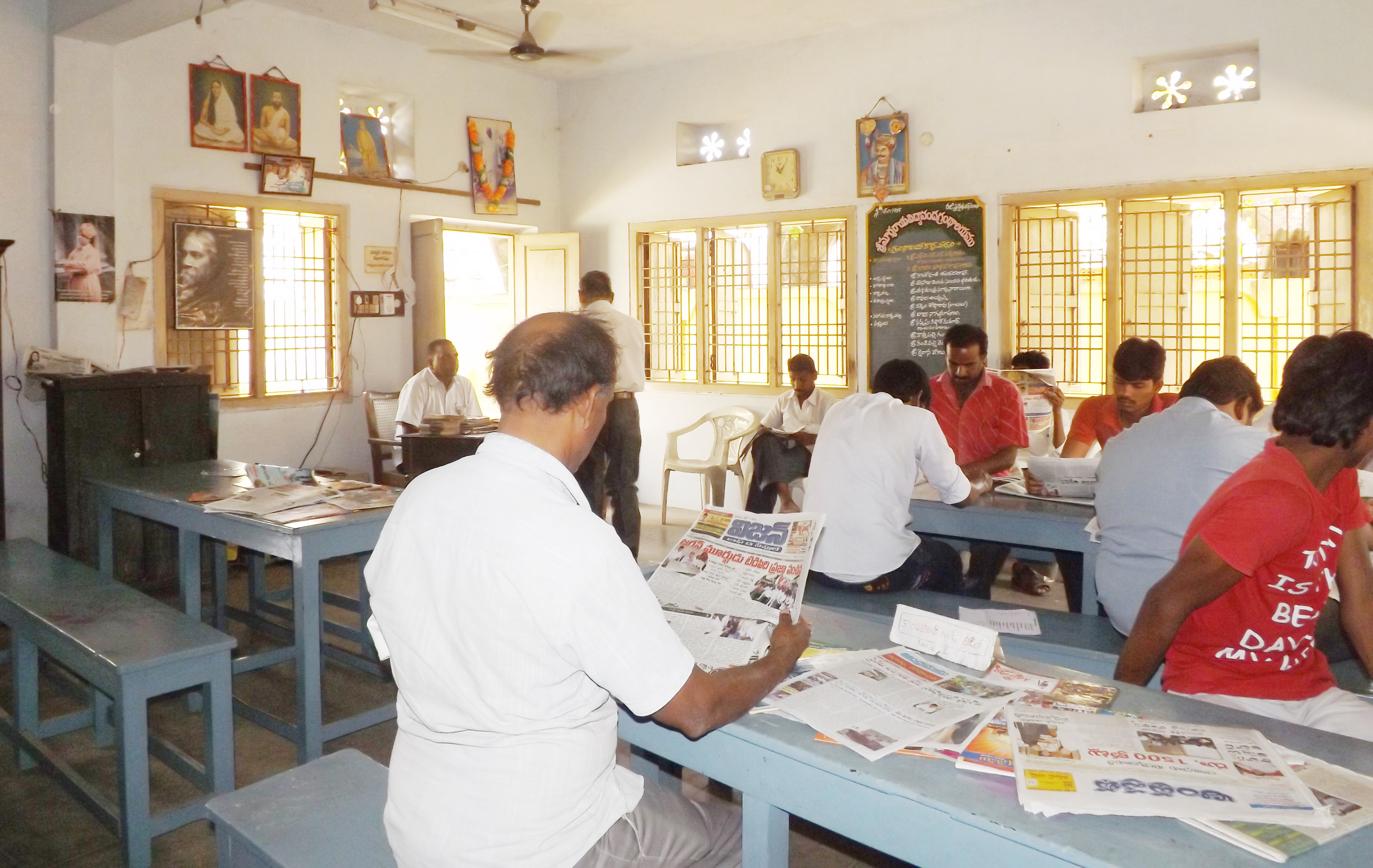 Suryaraya Vidyananda Library of Pithapuram - Andhrapradesh